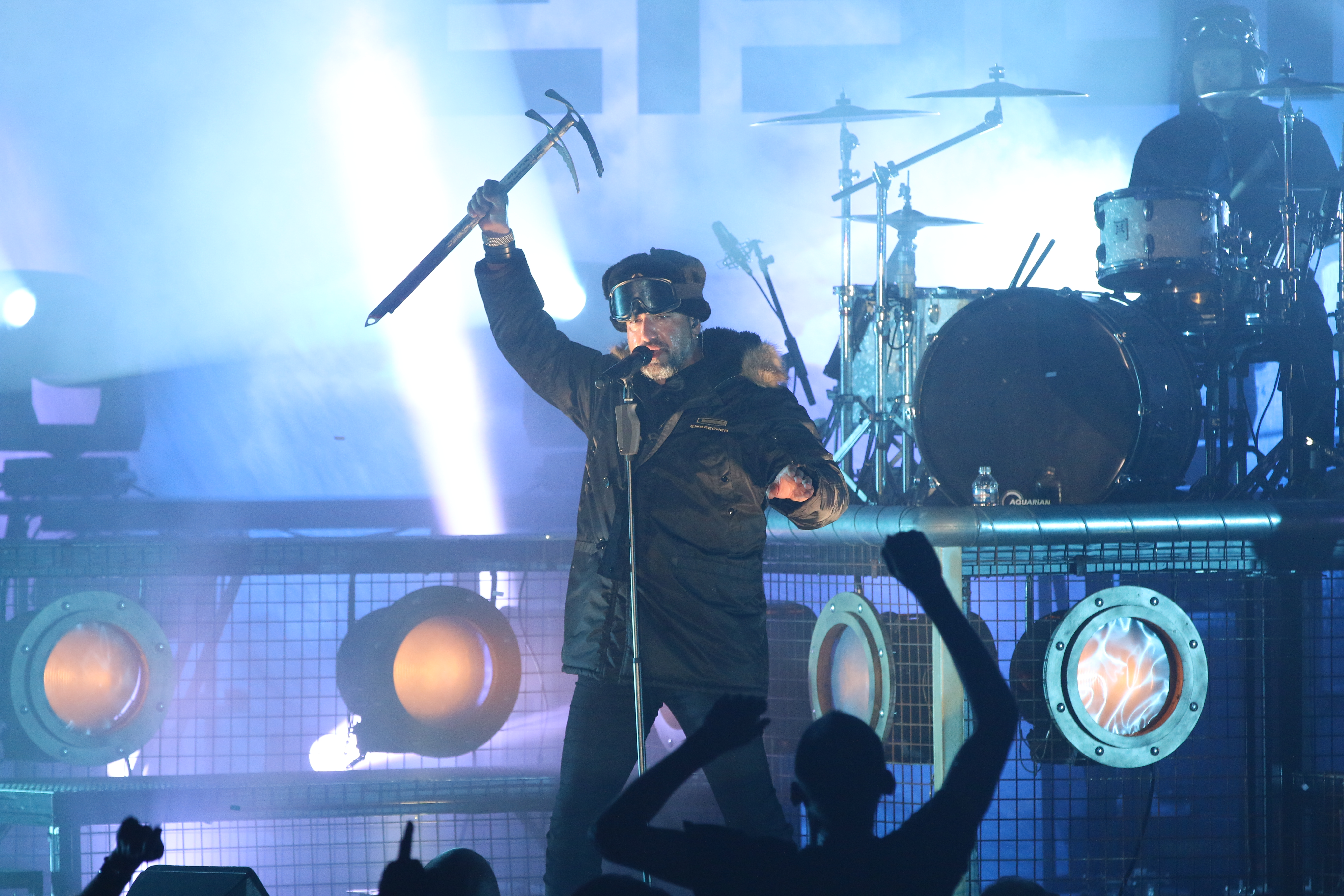 Eisbrecher at the Zelt-Musik-Festival in Freiburg im Breisgau on July 17th, 2016.